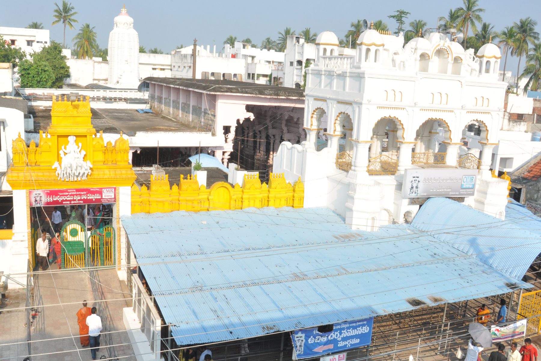 Arasavalli Sri Suryanarayana Swamy Temple is one of the most famous temple in Andhra Pradesh and one and only Sun God Temple in India